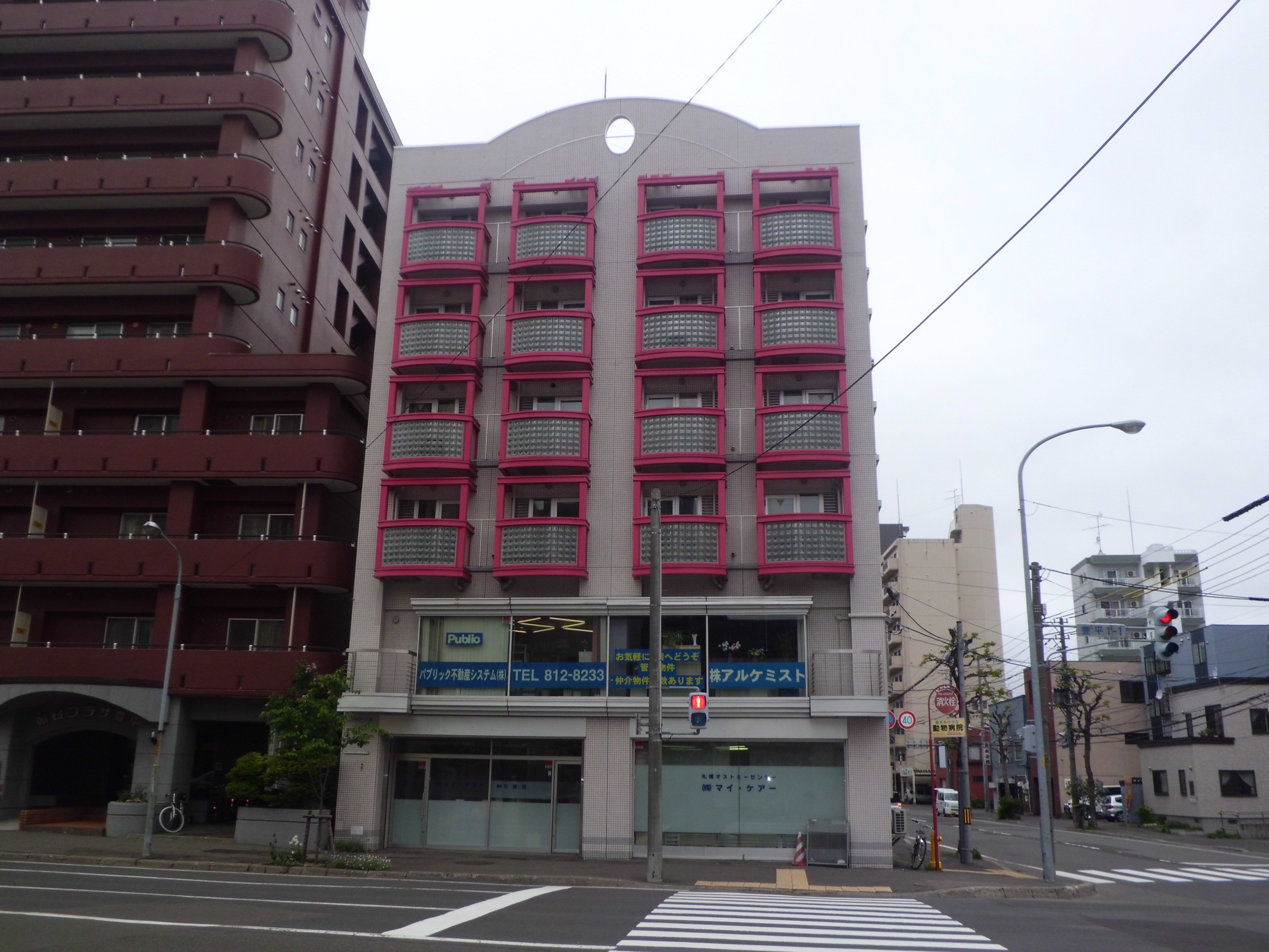 Public 48 Building in Toyohira, Toyohira-ku, Sapporo.